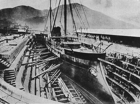 Italian ironclad Affondatore in dry dock in Italy